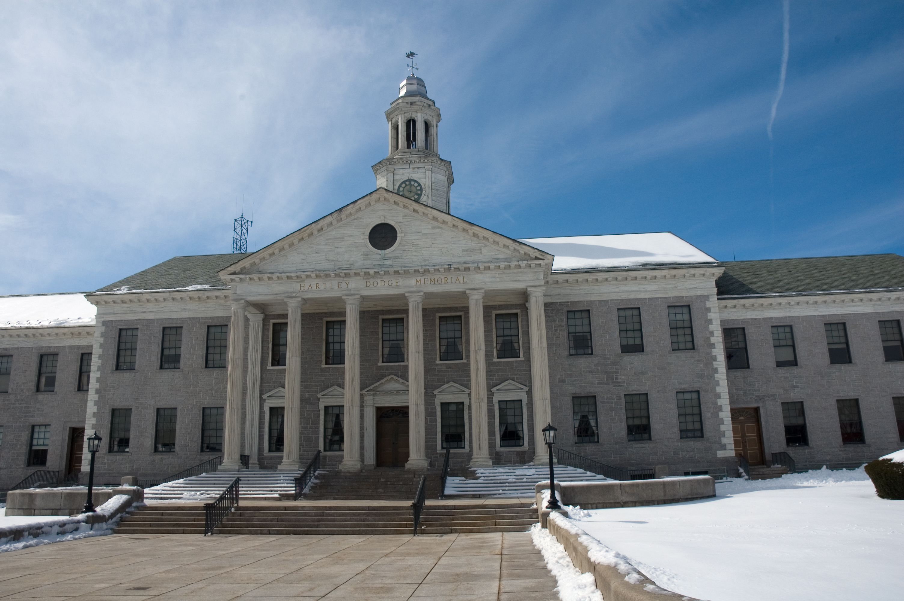 Hartley Dodge Memorial building in Madison, New Jersey Photography by Leif Knutsen